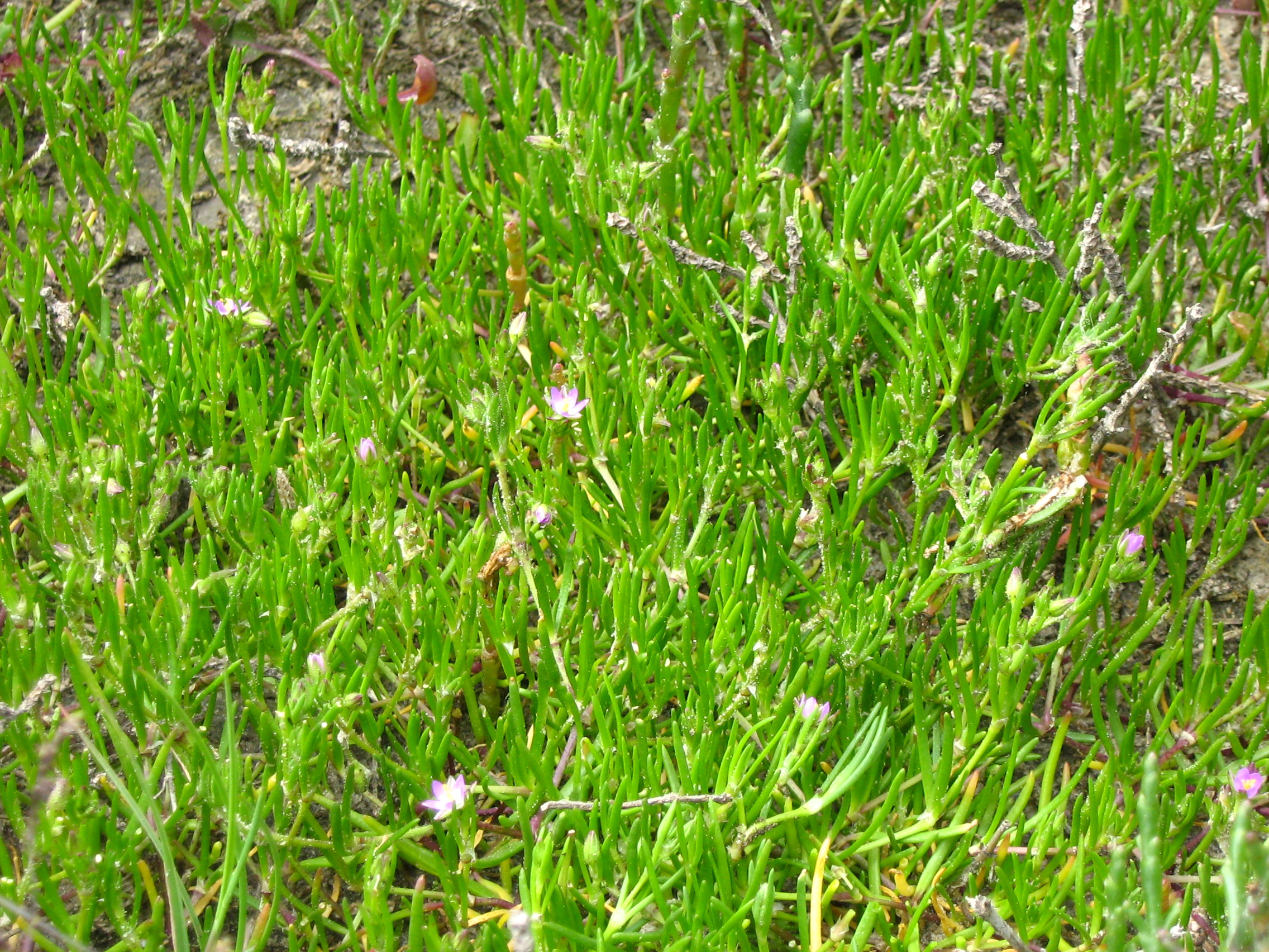 Spergularia salina and some Salicornia europaea. Artificial salt-marsh. Sodium factory area. Poland.